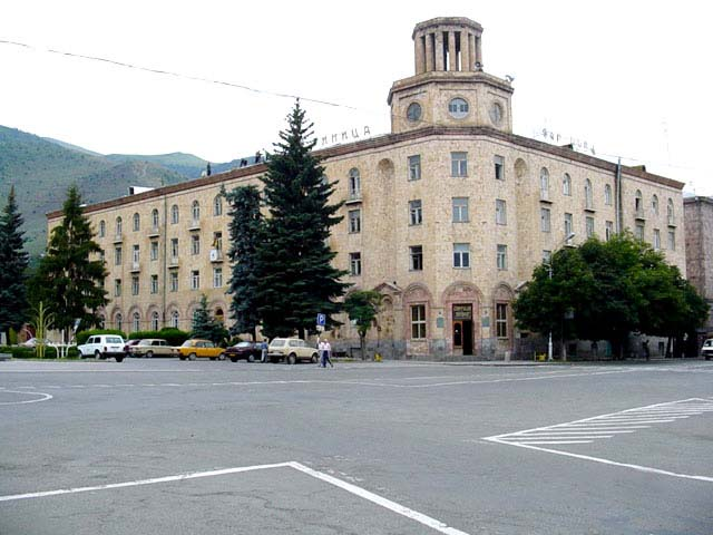 Vanadzor - Hotel Gougark on the Central Square (a work of Baghdasar Arzoumanian)